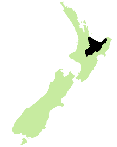 Map showing the location of Waiariki electorate with boundaries for the 2008 and 2011 elections